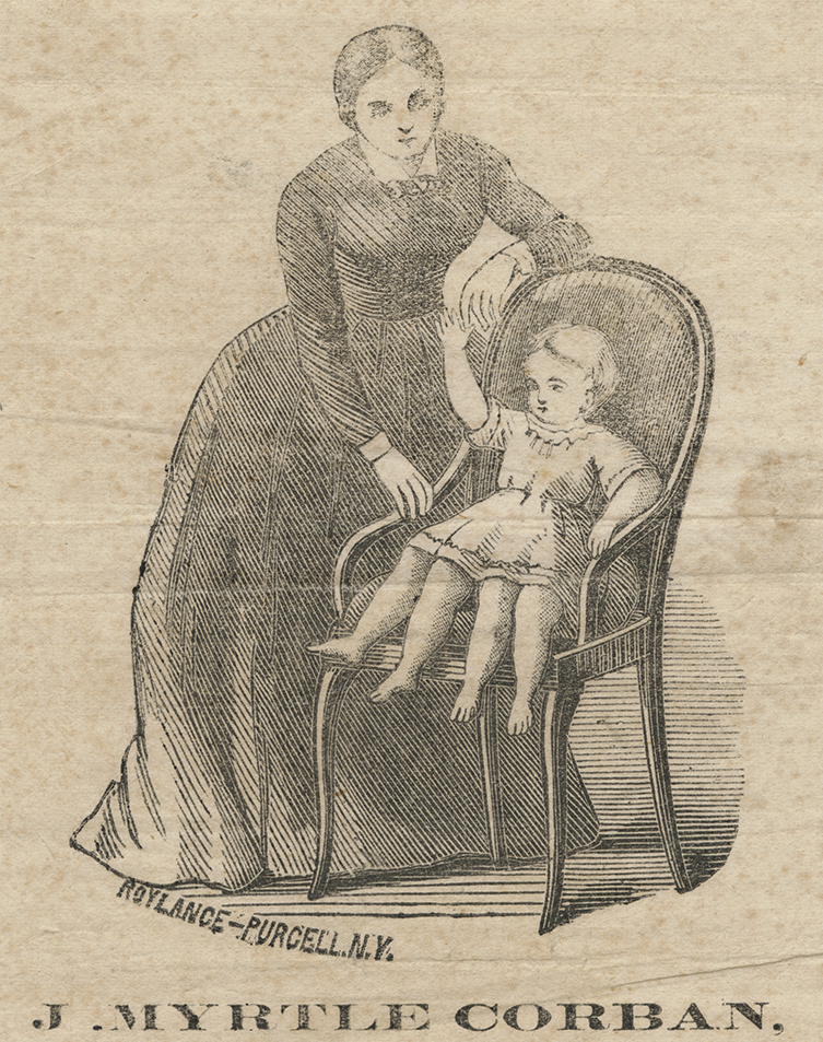 The broadside includes a short description of Myrtle Corban and transcript of a "medical certificate" attesting her condition.... It further explains that her parents' "only object in the exhibition is to gain means to give the child a thorough education, and if possible a competency for life." Illustration depicts mother attending the seated child who is wearing a short dress which reveals 4 lower limbs. Exhibition times and admission costs are also noted.